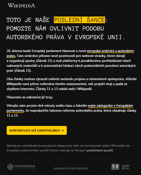 Wikipedia cs blackout against the EU copyright directive proposal, 21 March 2019